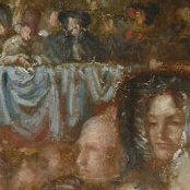 William Adam cropped from large painting at The Anti-Slavery Society Convention, 1840